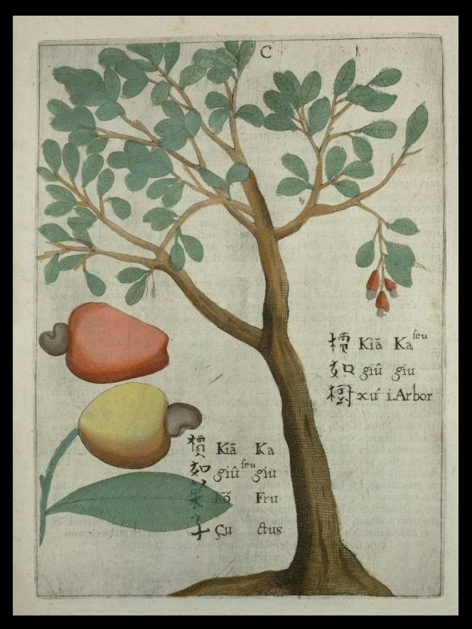 One of the earliest natural history books about China. Jesuit Missionary author. (obviously includes some non-Chinese {and non-floral} species)